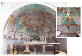 From Gammel Haderslev Church Photo by author Jens Christensen